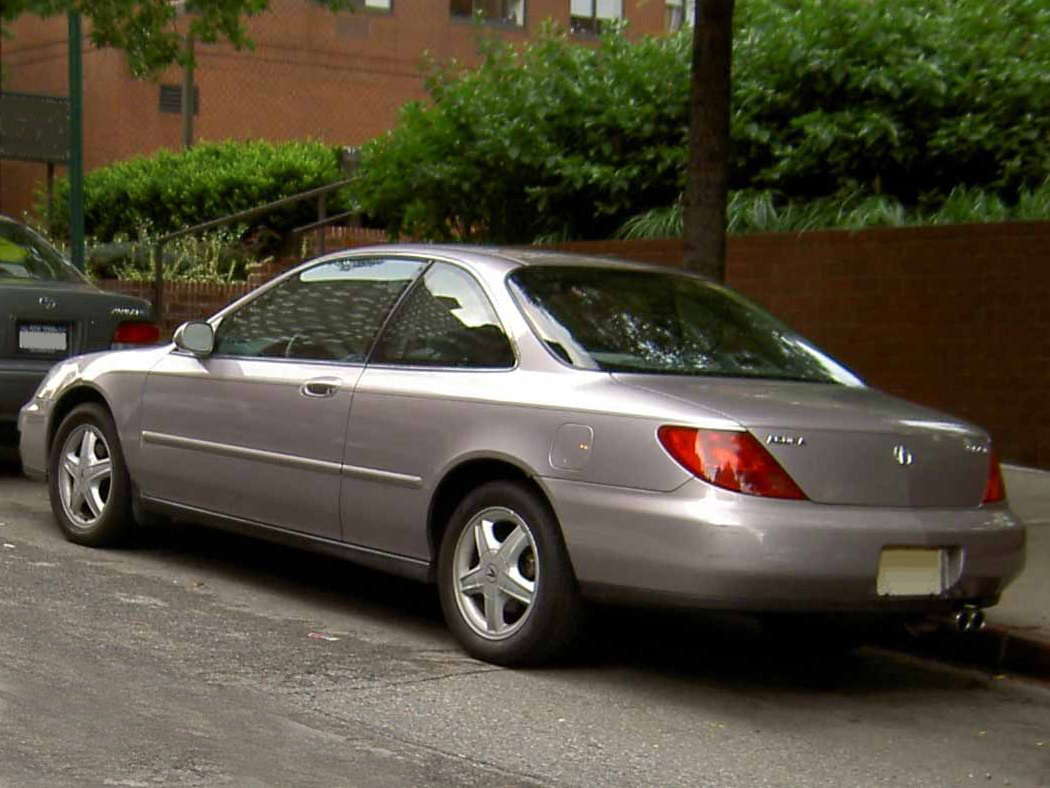 1997-1999 Acura CL, photographed in New York City